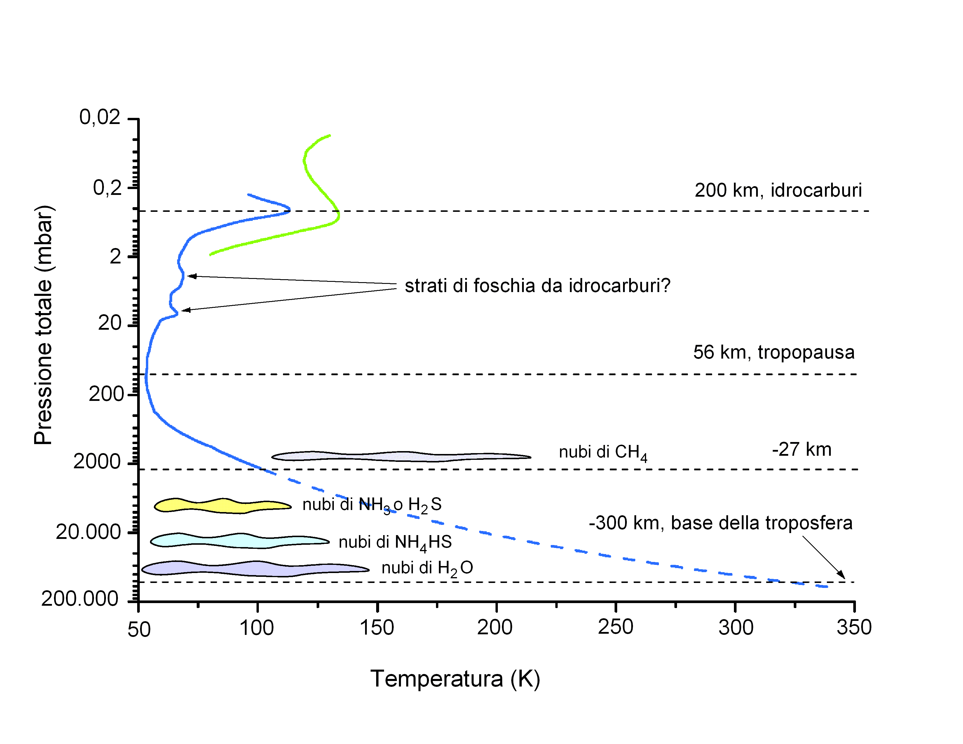 This graph shows temperature profile in the troposphere and in the lower stratosphere of Uranus. Heights are also indicated. The blue curve is from Lindal et al.[1]. The green curve is from Bishop et al.[2] The dashed blue curve is an extrapolation of the 1987 Lindal et al. data[1] using a constant lapse rate of 0.82 K/km. The graph also shows locations of the main cloud and haze layers according to 1990 Bishop et al.[2], Atreya et al.[3] and dePater et al. [4]